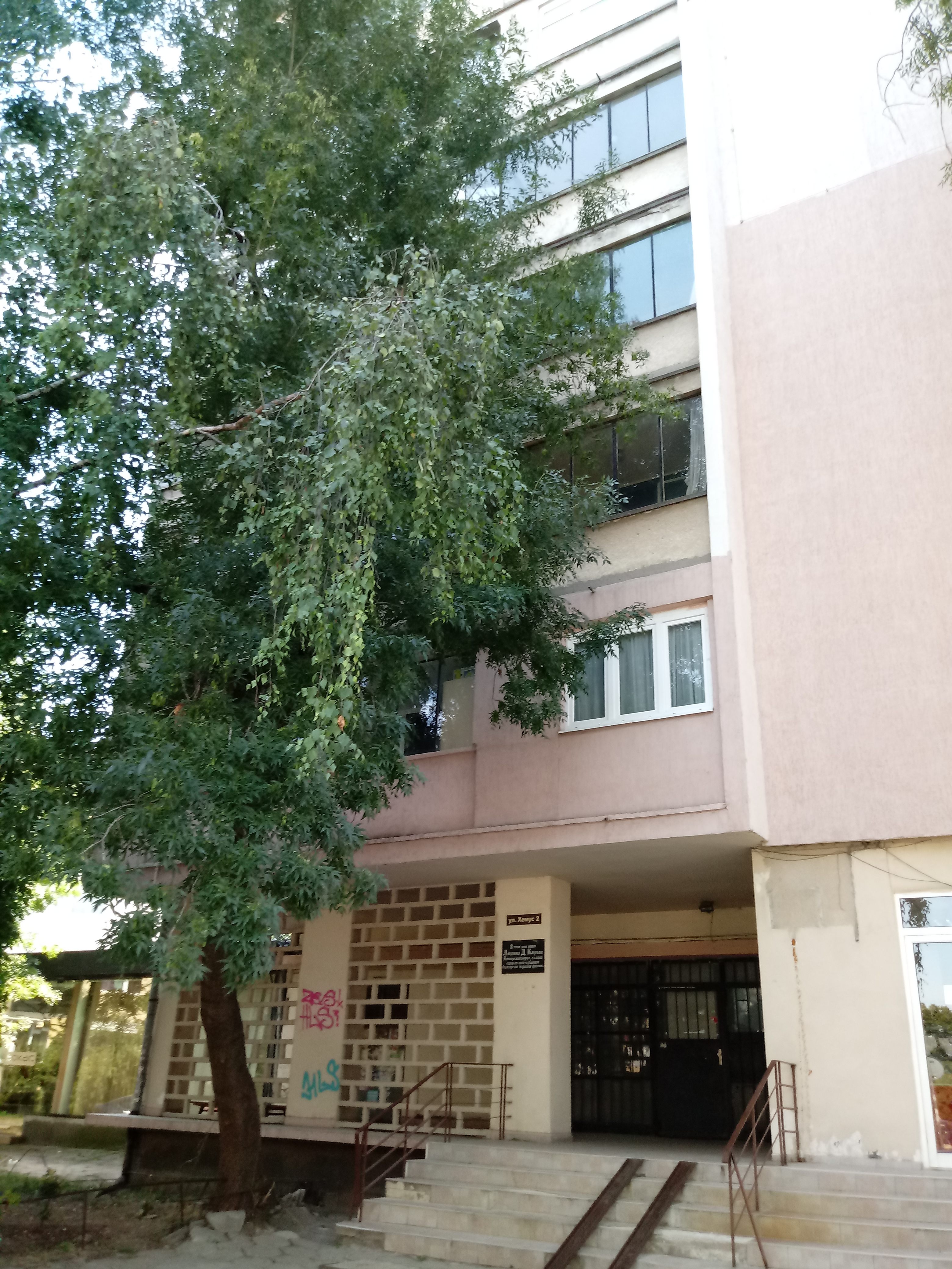 Lyudmil Kirkov memorial plaque - 2 Hemus Str., Sofia